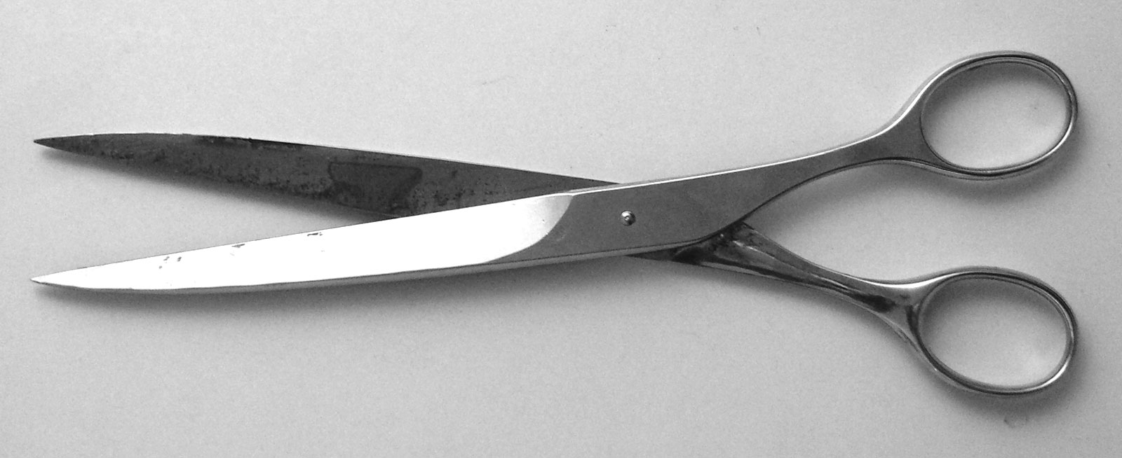 paper scissors